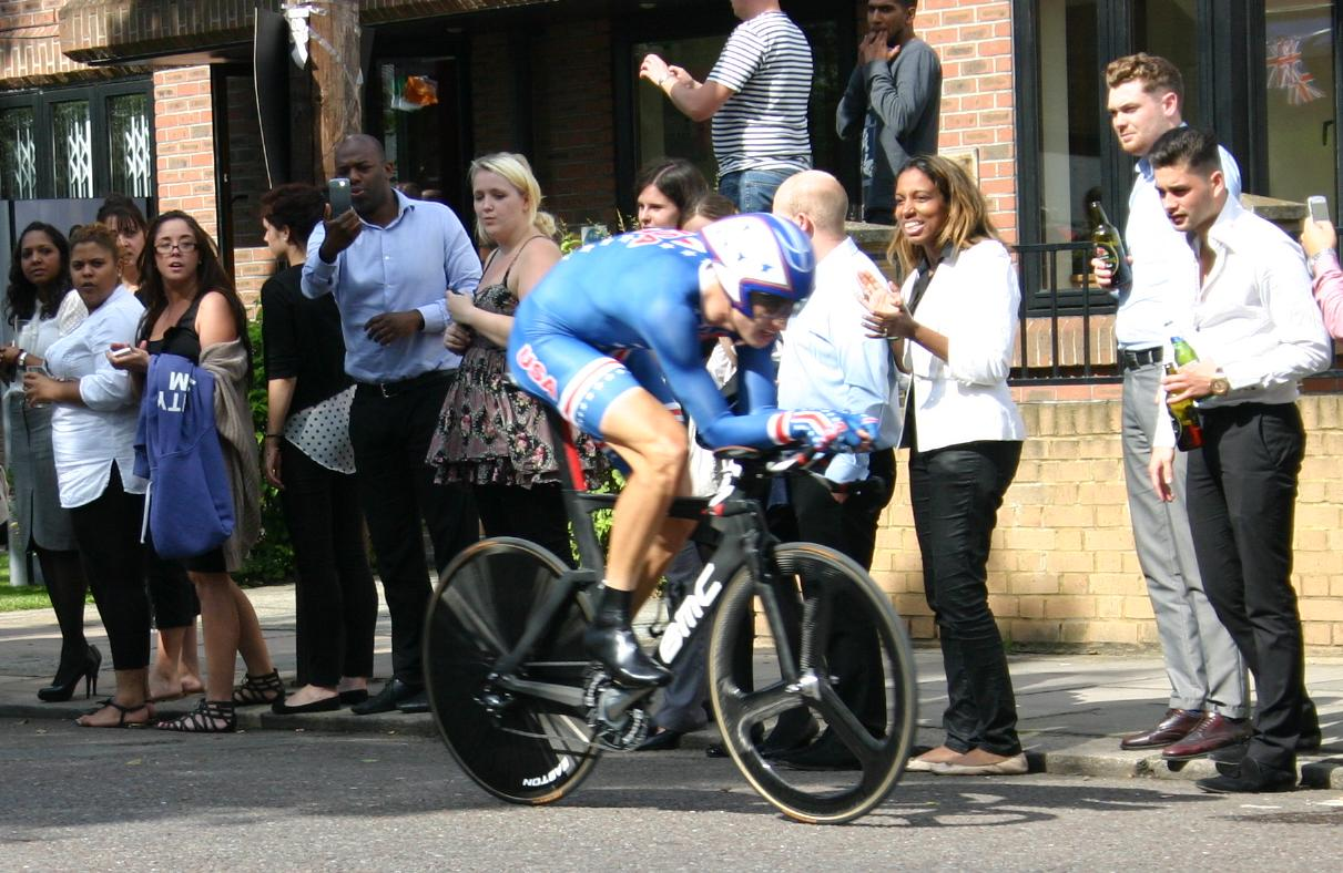 cyclist - Cycling at the 2012 Summer Olympics – Men's road time trial